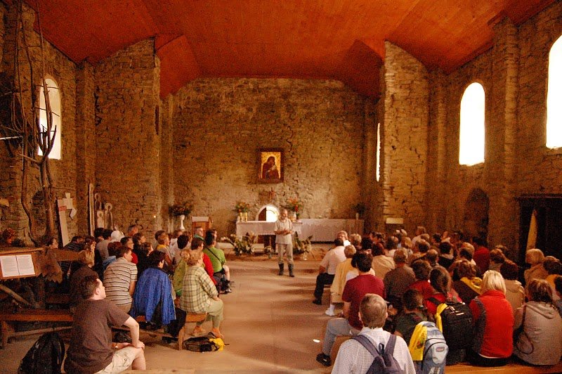 Inside church in Łopienka. Bieszczady mountain east-south Poland